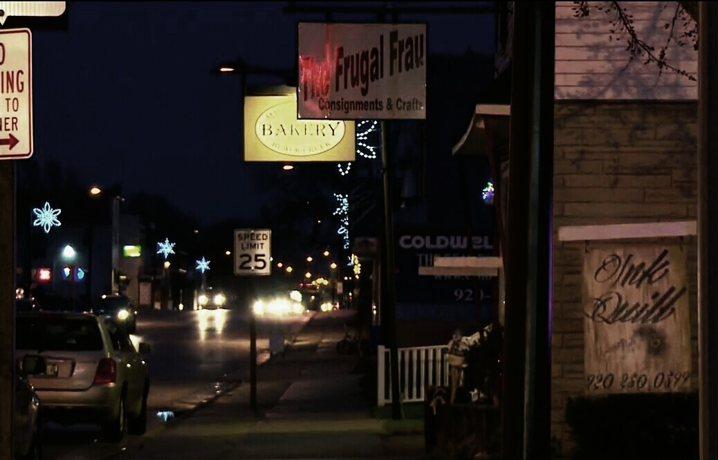 December Lighting of Downtown Main Street Black Creek, Wisconsin facing south.